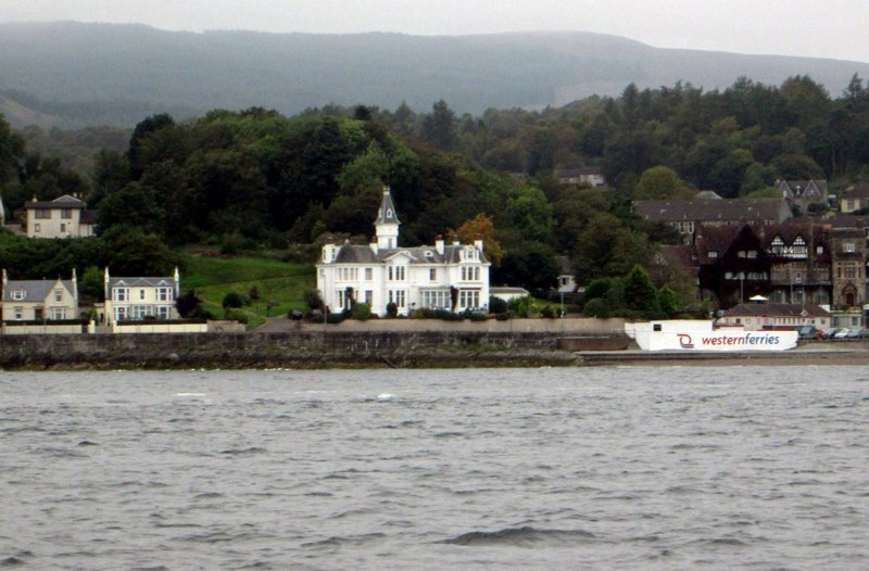 Hunters Quay Hotel, Dunoon, Scotland.